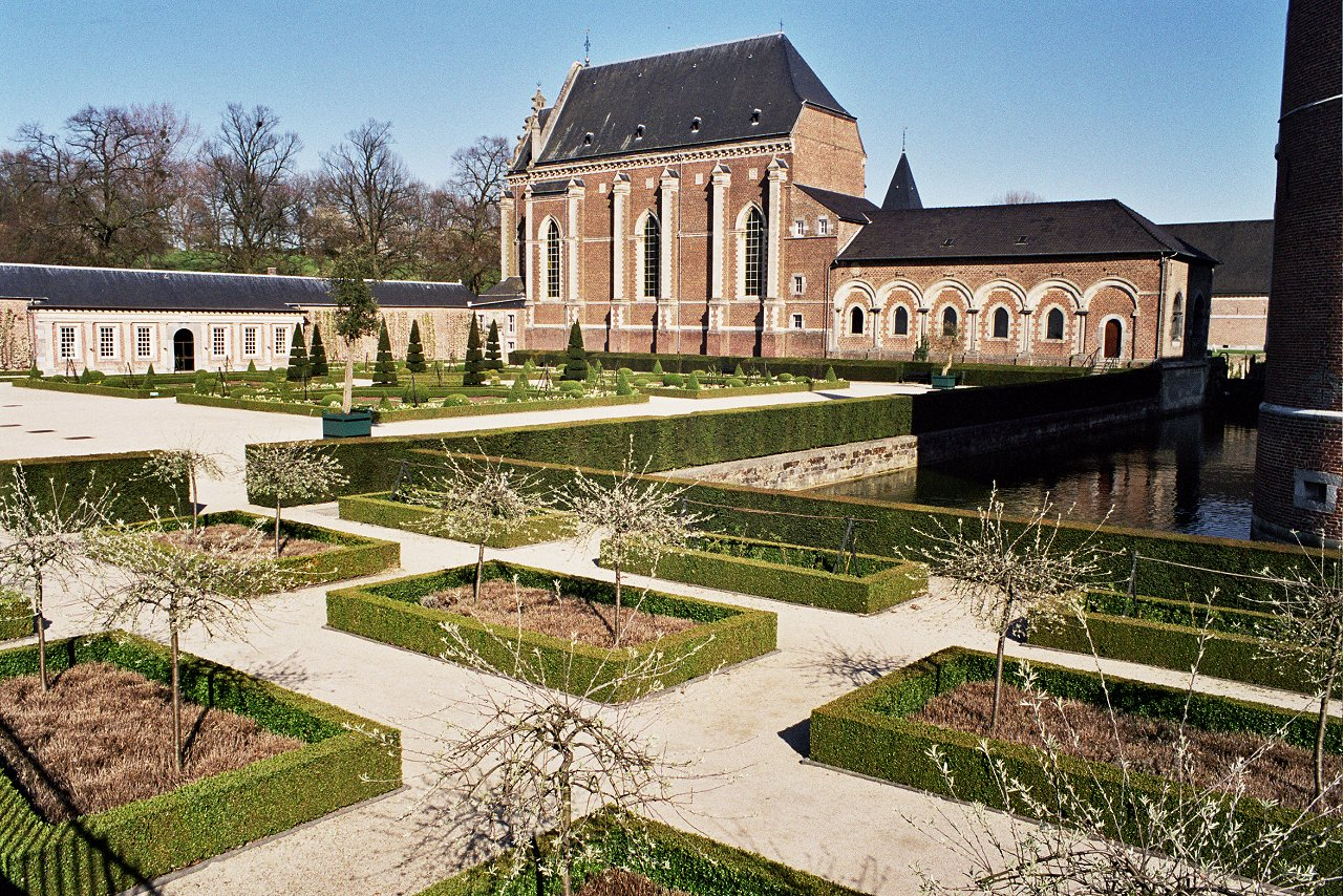 Castle Alden Biesen, french garden with chapel in background